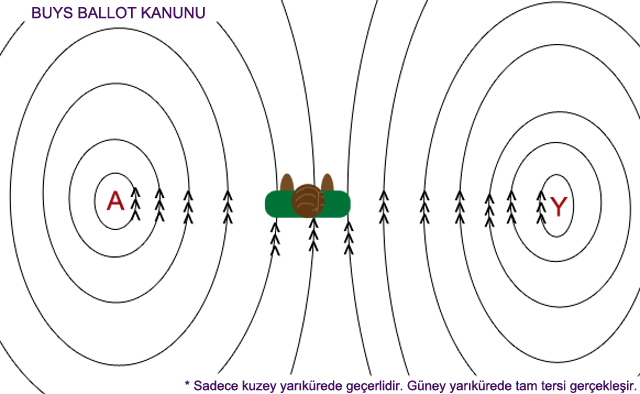 Buys Ballot's law